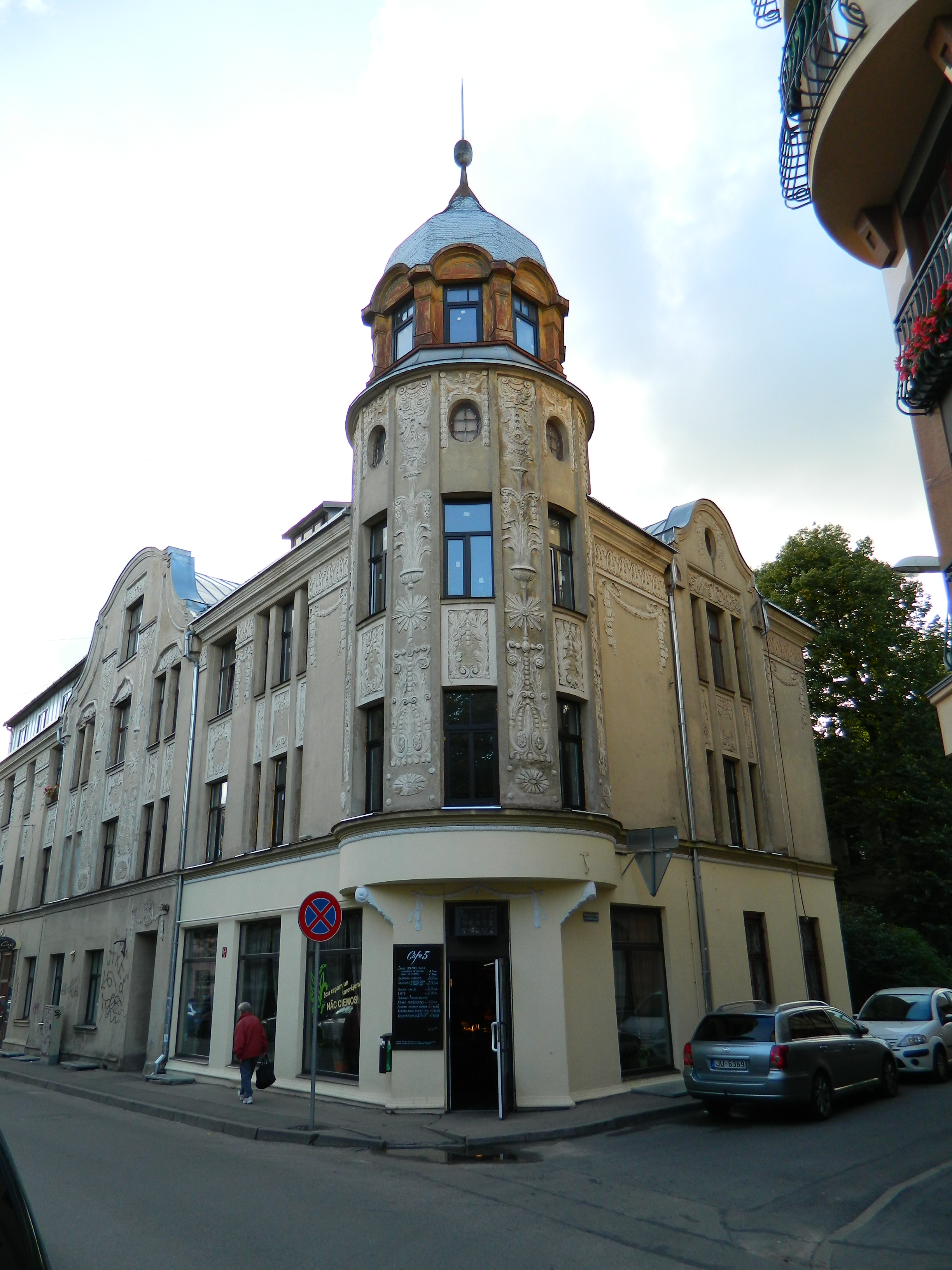 Tenement house